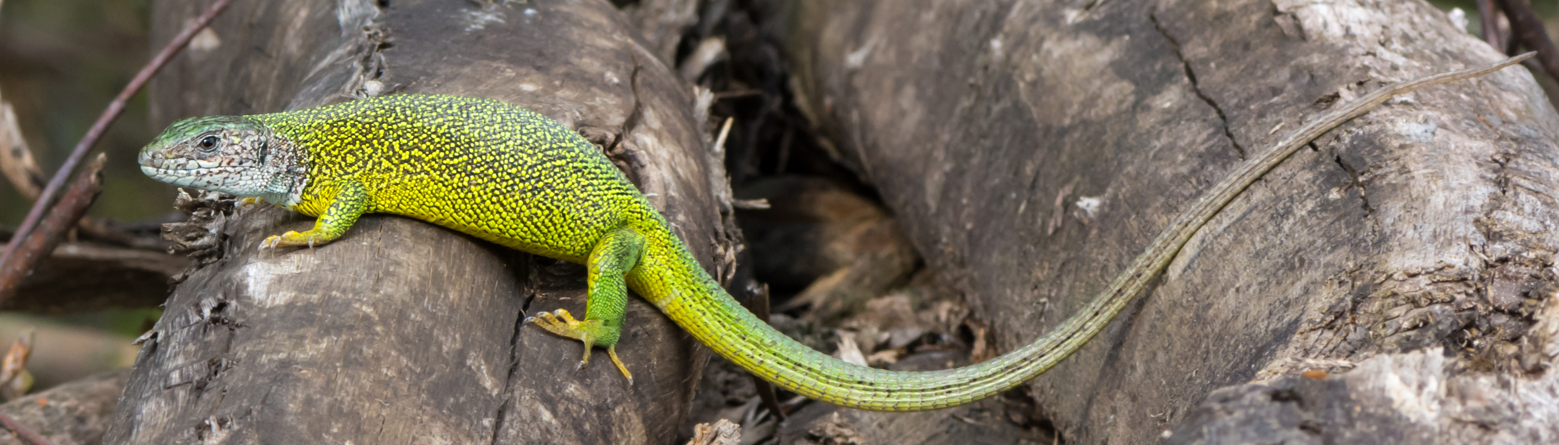 European green lizard (Lacerta viridis). This female individuum is approx. 25-30 cm long.